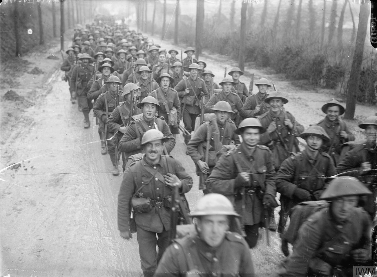 The Battle of the Somme, July-november 1916 Troops of the 10th Battalion, Royal Fusiliers (37th Division) marching to the trenches, St Pol (Saint-Pol-sur-Ternoise), November 1916